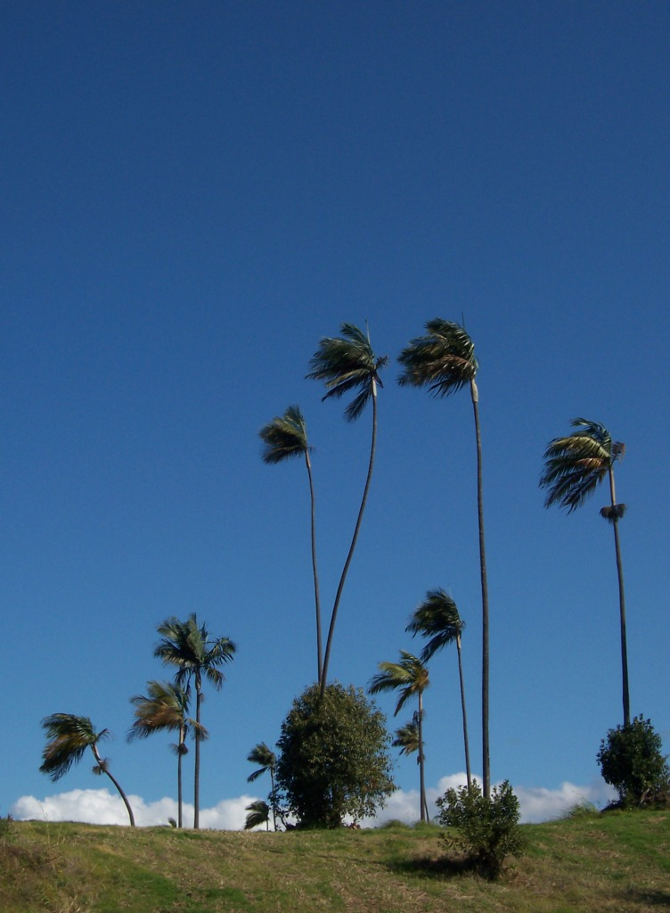 Princess (or Hurricane) palm (Dictyosperma album) - group, Réunion island